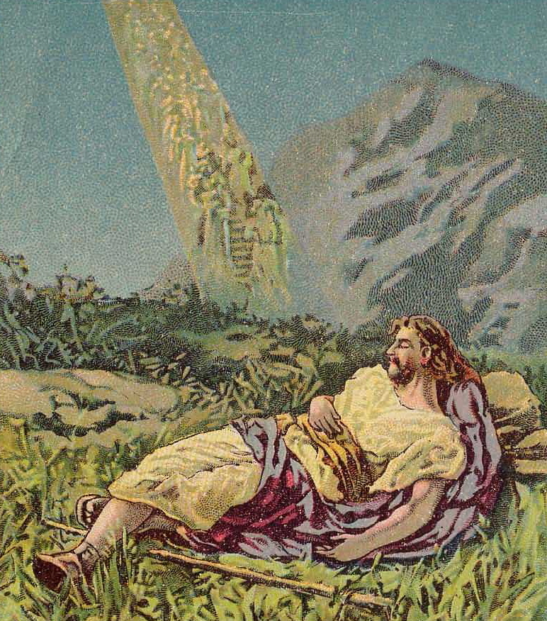 Jacob at Bethel, as in Genesis 28:10-22, illustration from a Bible card published 1900 by the Providence Lithograph Company